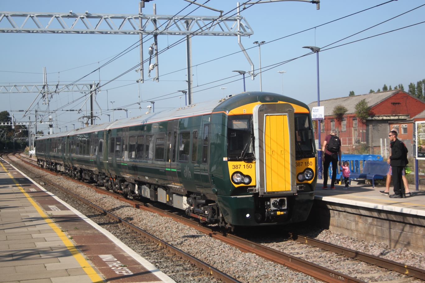 Electric unit 387150 call at Acton Main Line with a Great Western Railway suburban service from Hayes & Harlington to London Paddington.